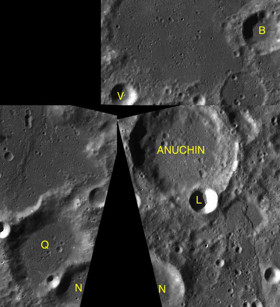 Part of the charts LAC-116, LAC-129, LAC-130 used for the presentation.